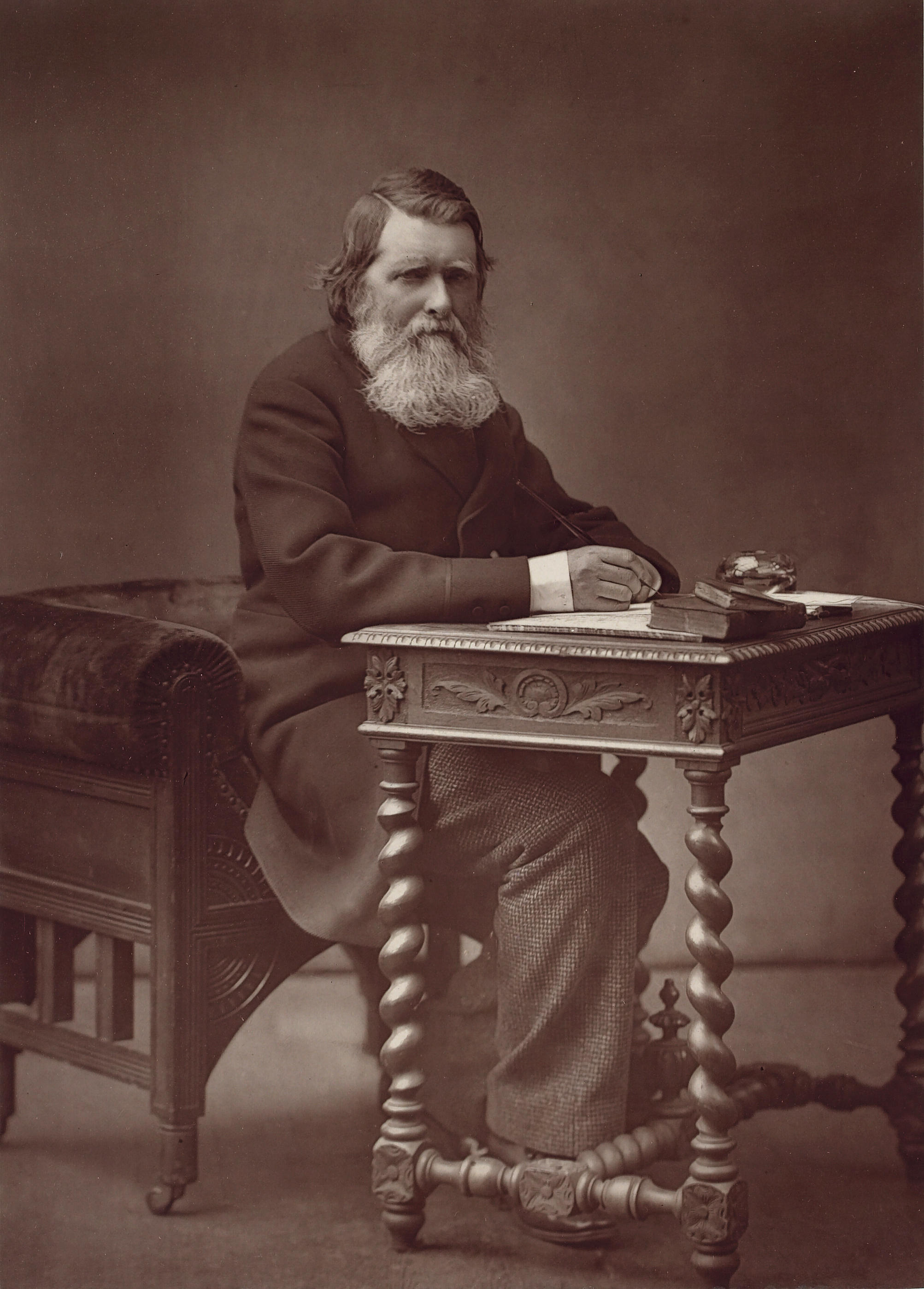 Portrait of John Ruskin, Woodburytype, 12.4 x 9 in. / 31.4 x 22.9 cm.